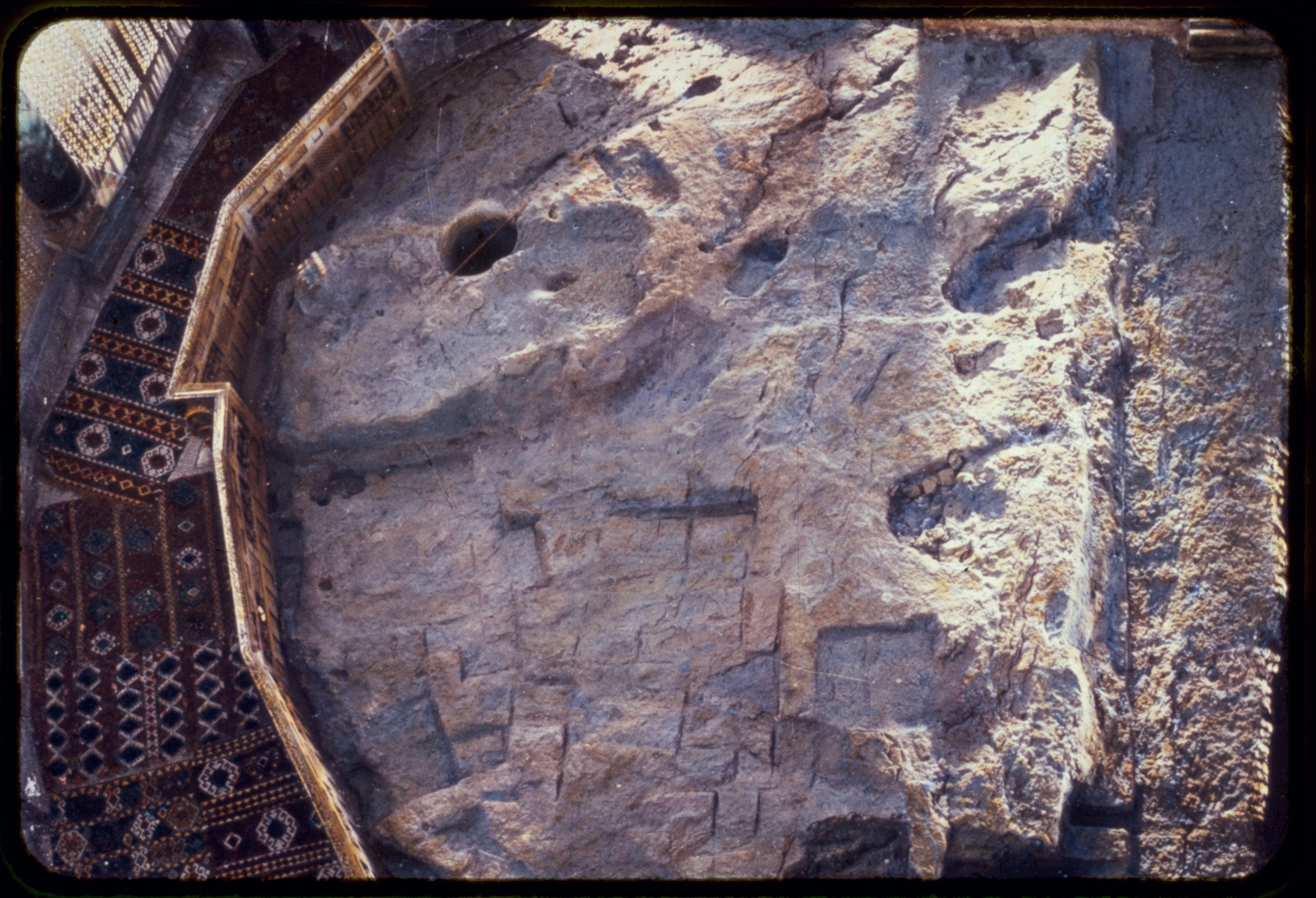 Title: Temple area, Mosque of Omar [i.e., Dome of the Rock], etc. Rock Moriah, from the south Abstract/medium: G. Eric and Edith Matson Photograph Collection Physical description: 1 slide